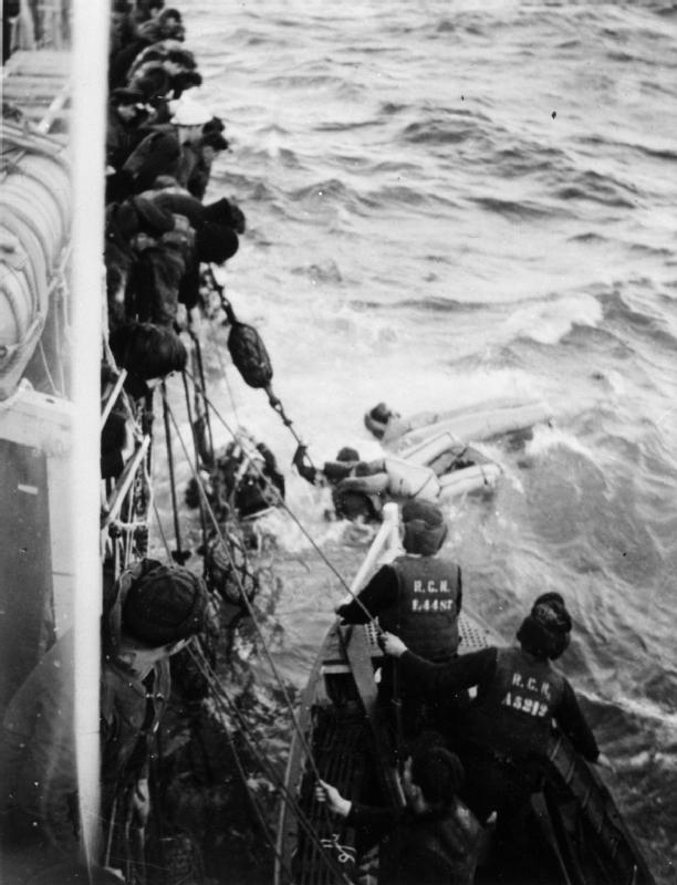 Canadian Frigate Hmcs Swansea Gets Another U-boat. 1944, Hmcs Swansea Accounted For Her Second U-boat. a Number of Survivors Were Rescued. SWANSEA's seaboat alongside as U-boat survivors are helped out of the sea and on board the frigate.